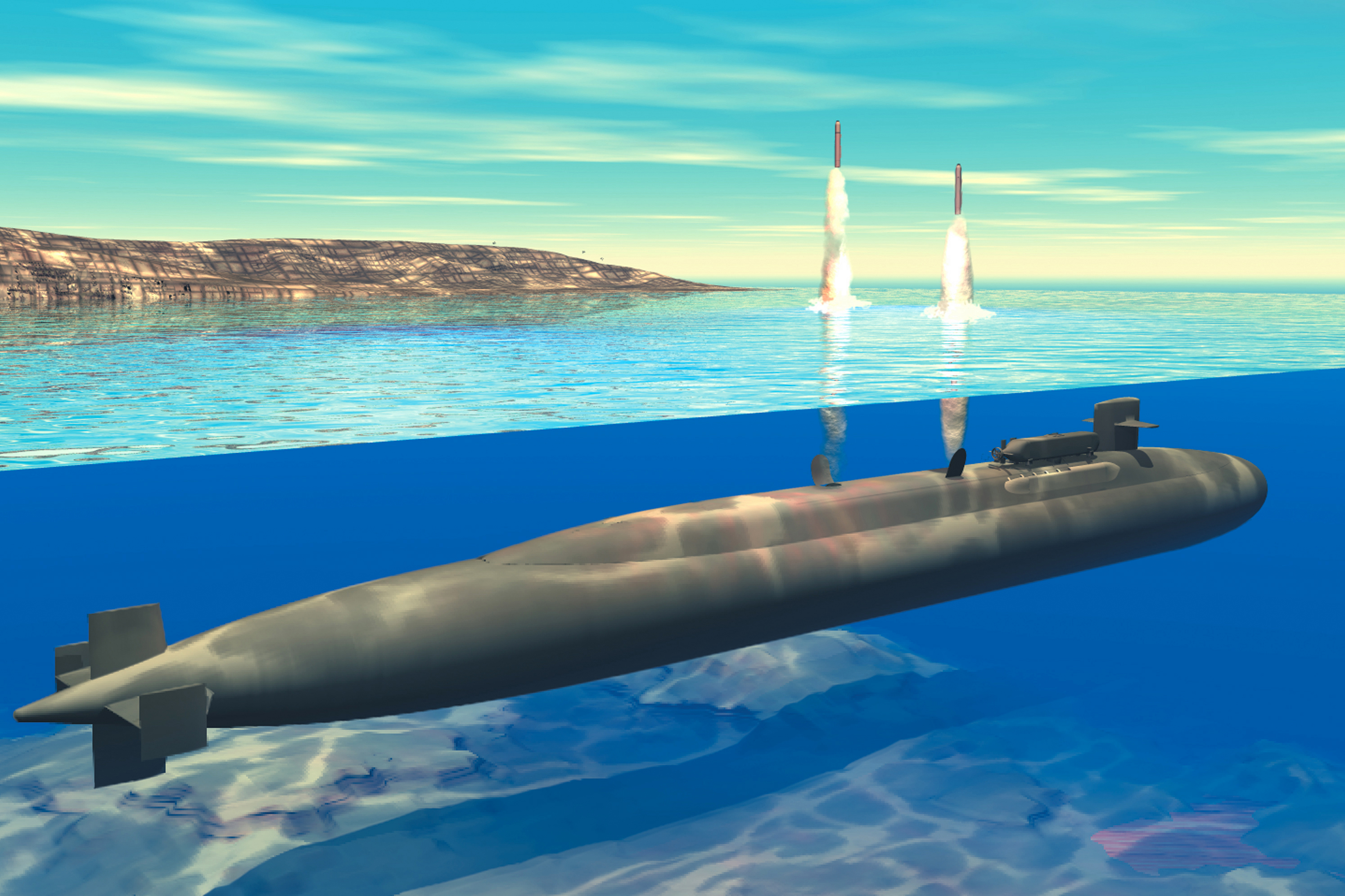 Ohio-class submarine launches Tomahawk Cruise missiles (artist concept) original image caption: 030606-N-0000X-005 Washington, D.C. (Jun. 6, 2003) -- Artist concept of the SSGN conversion program. Four Ohio-class strategic missile submarines USS Ohio (SSBN 726), USS Michigan (SSBN 727) USS Florida (SSBN 728), and USS Georgia (SSBN 729) have been selected for transformation into a new platform, designated SSGN or Tactical Trident. The SSGNs will have the capability to support and launch up to 154 Tomahawk missiles, a significant increase in capacity as compared to other platforms. The 22 missile tubes will also provide the capability to carry other payloads, such as unmanned underwater vehicles (UUVs), unmanned aerial vehicles (UAVs) and special forces equipment. This new platform will also have the capability to carry and support more than 66 Navy SEALs (Sea, Air and Land) and insert them clandestinely into potential conflict areas. U.S. Navy graphic. (RELEASED)